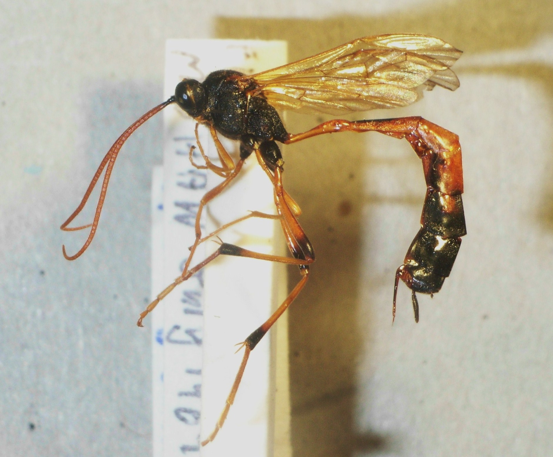 Ichneumonidae Subfamily Anomaloninae Tribe Gravenhorstiini Genus Agrypon Ichneumonidae:Subfamily Anomaloninae;Tribe Gravenhorstiini:Genus Agrypon